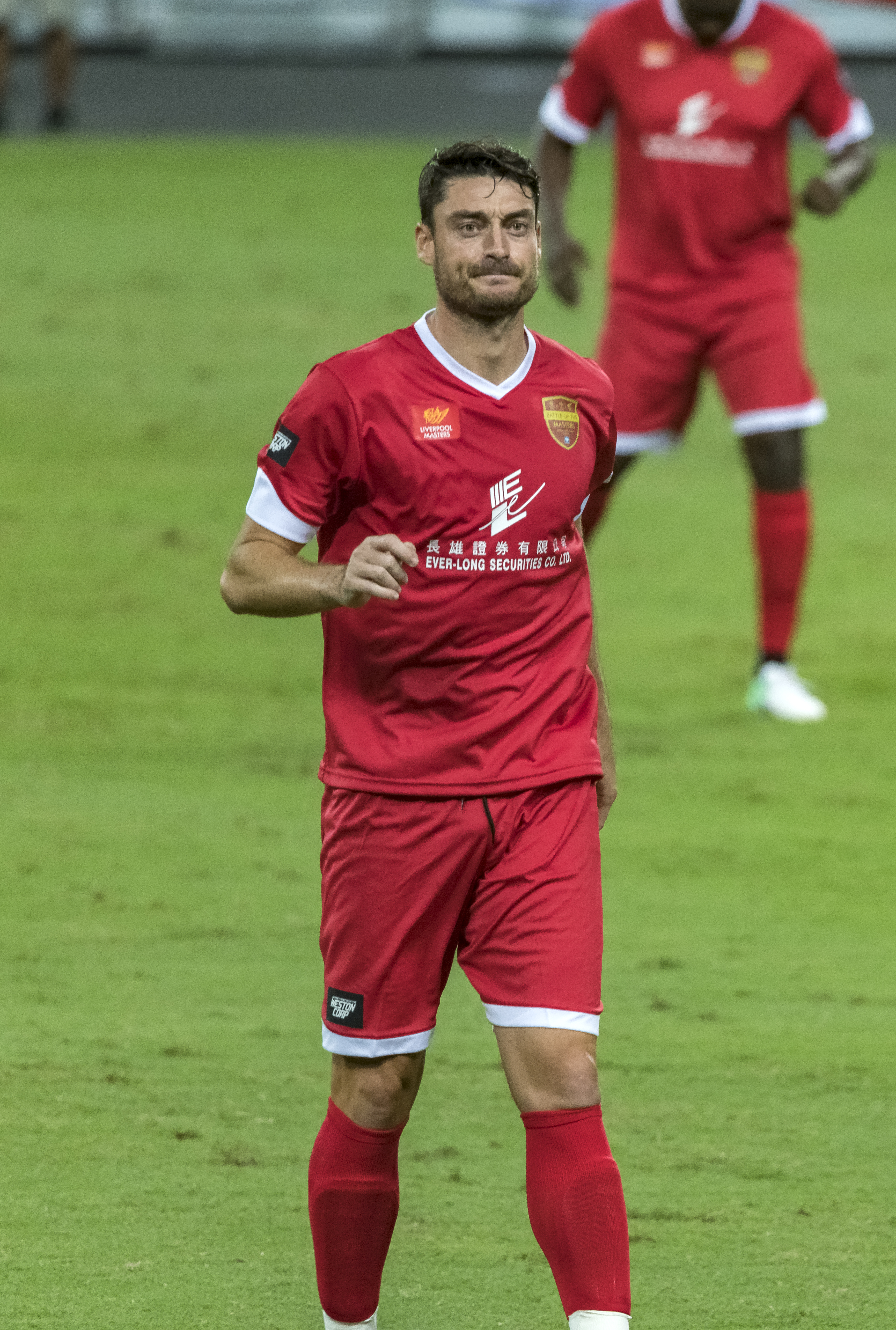 albert riera liverpool masters singapore national stadium 2017